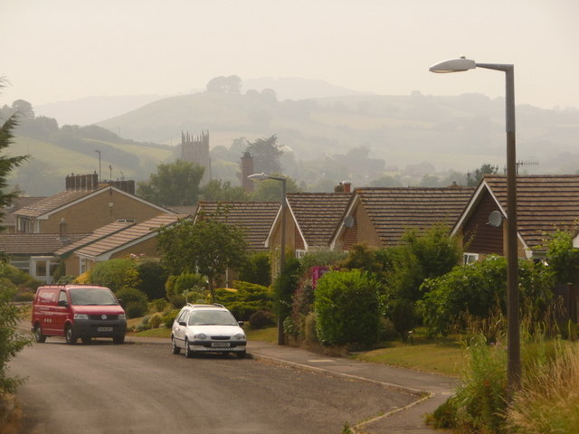 Beaminster: view along Hollymoor Lane The misty hillsides west of the town provide a backdrop for this view of the parish church tower, seen above the rooftops of bungalows in Hollymoor Lane.